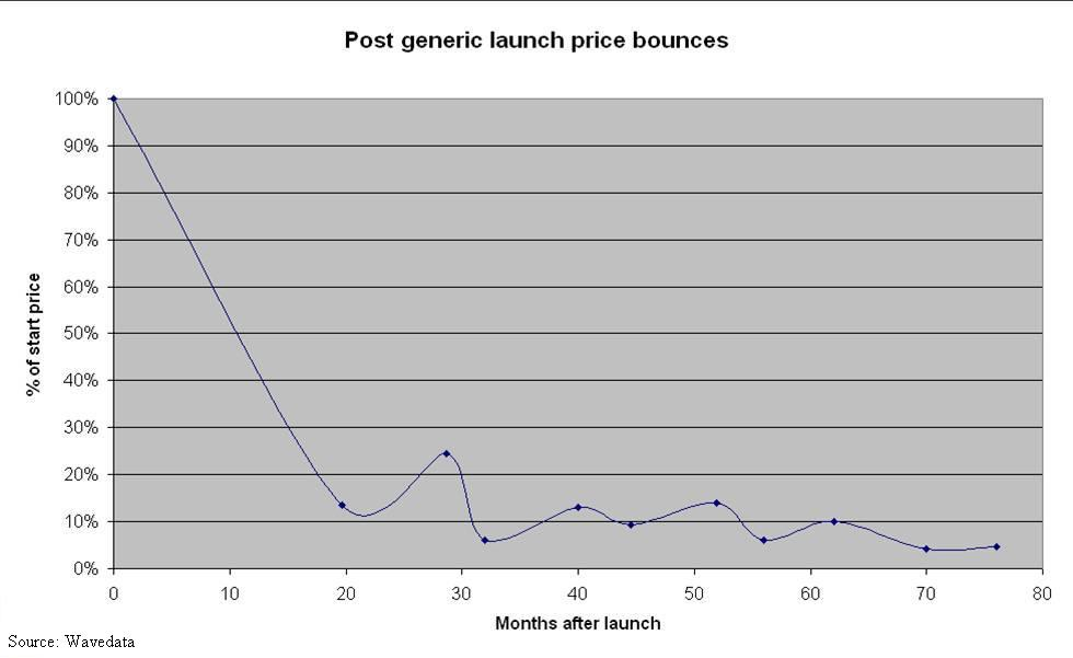 Onset of seasonality caused by a generic drug price bounce